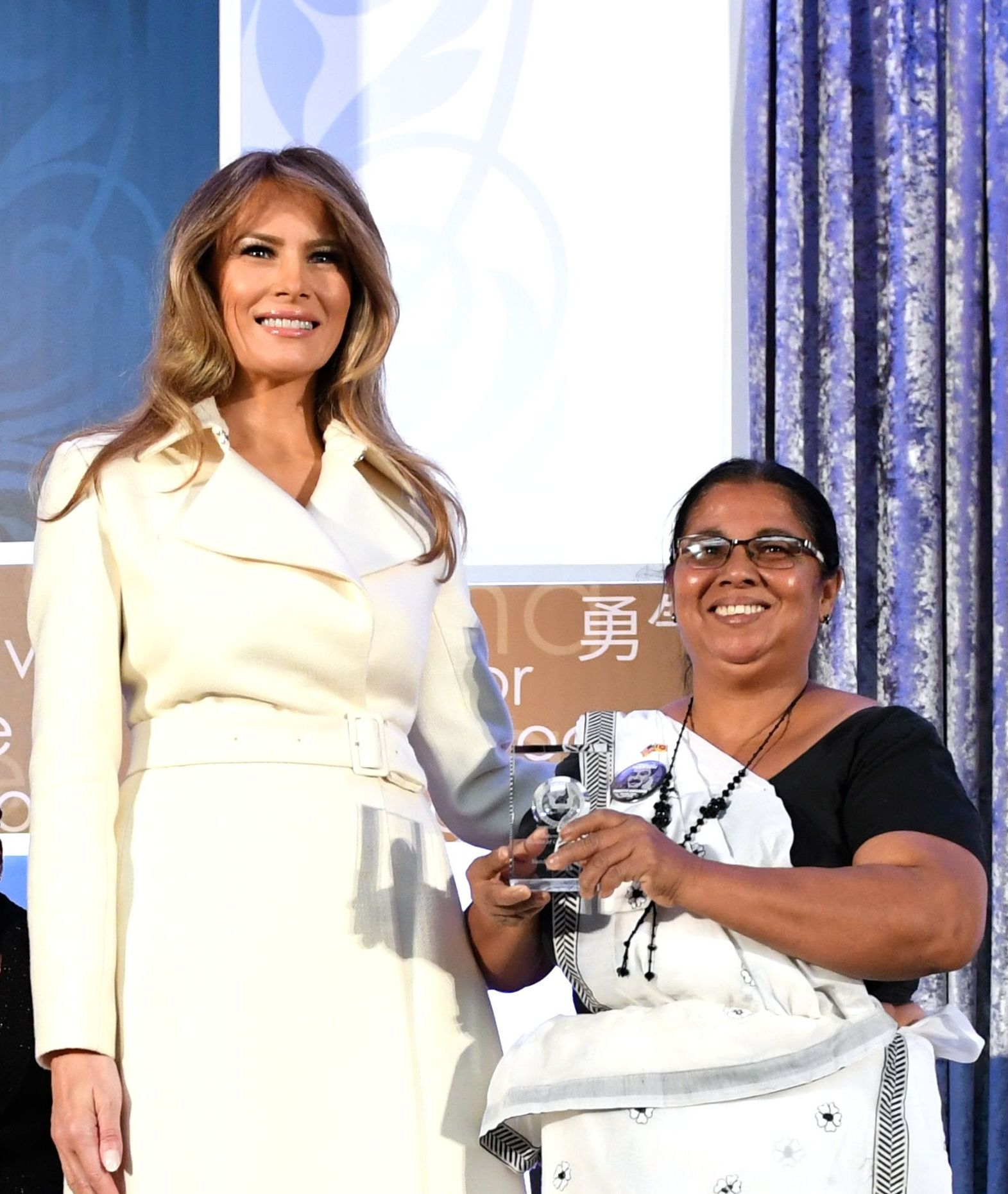 Sandya Eknelygoda at the International Women of Courage Award 2017 "First Lady Melania Trump poses for a photo with 2017 International Women of Courage Awardee Sandya Eknelygoda of Sri Lanka during a ceremony at the U.S. Department of State in Washington, D.C., on March 29, 2017." "Sandya Eknelygoda is a symbol of the search for justice and reconciliation in Sri Lanka. Following the disappearance of her husband, journalist Prageeth Eknelygoda in 2010, Sandya made it her mission to fight for the families of the missing. As a result, her husband's case has become a barometer of the Sri Lankan government's ability to restore the rule of law and accountability to the United Nations Human Rights Council resolution it co-sponsored in October 2015. Sandya's pursuit of justice is now in its seventh year. In that time, she has made over 90 court appearances, seeking information and resolutions regarding her husband's fate. Sandya has readily lent her voice to families of disappeared victims from Sri Lanka's civil conflict, primarily in the Northern and Eastern provinces. Sandya has regularly traveled to these areas at considerable personal expense to meet with families of the missing and offer them advice and encouragement. Although Sandya comes from the majority Sinhalese community of southern Sri Lanka, she has been embraced by the Tamil people of the north as a symbol of the nation-wide search for justice and reconciliation. Sandya's campaign is based upon her belief that "pursuing the truth is not a crime, protecting the perpetrators is." She stands for all Sri Lankans who seek the truth regarding those that have disappeared." [1]